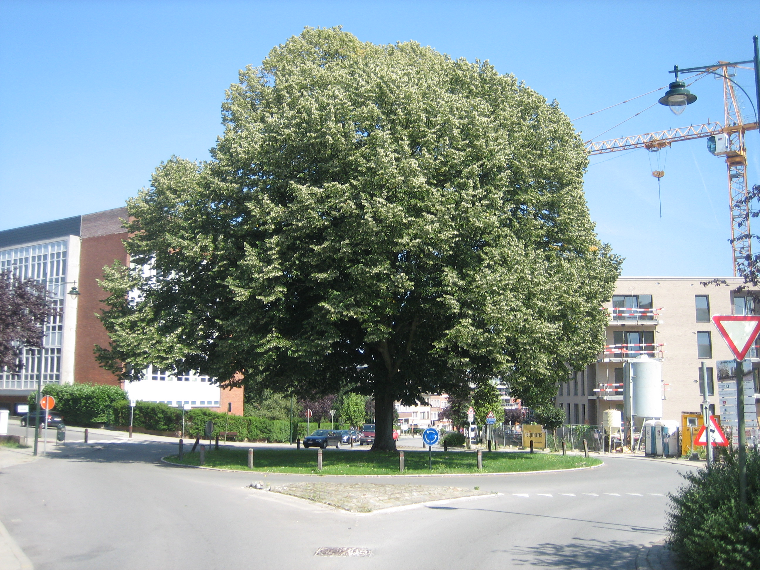 Tilia tomentosa, remarkable lime tree in Auderghem/Oudergem, interesction of Bd. des Invalides/Invalidenlaan and Sint-Juliaanskerklaan/Avenue de l'Eglise St. Julien. Planted 1930 for the centennial aniversary of Belgium. Cultural heritage monument no 2232-0042/0.